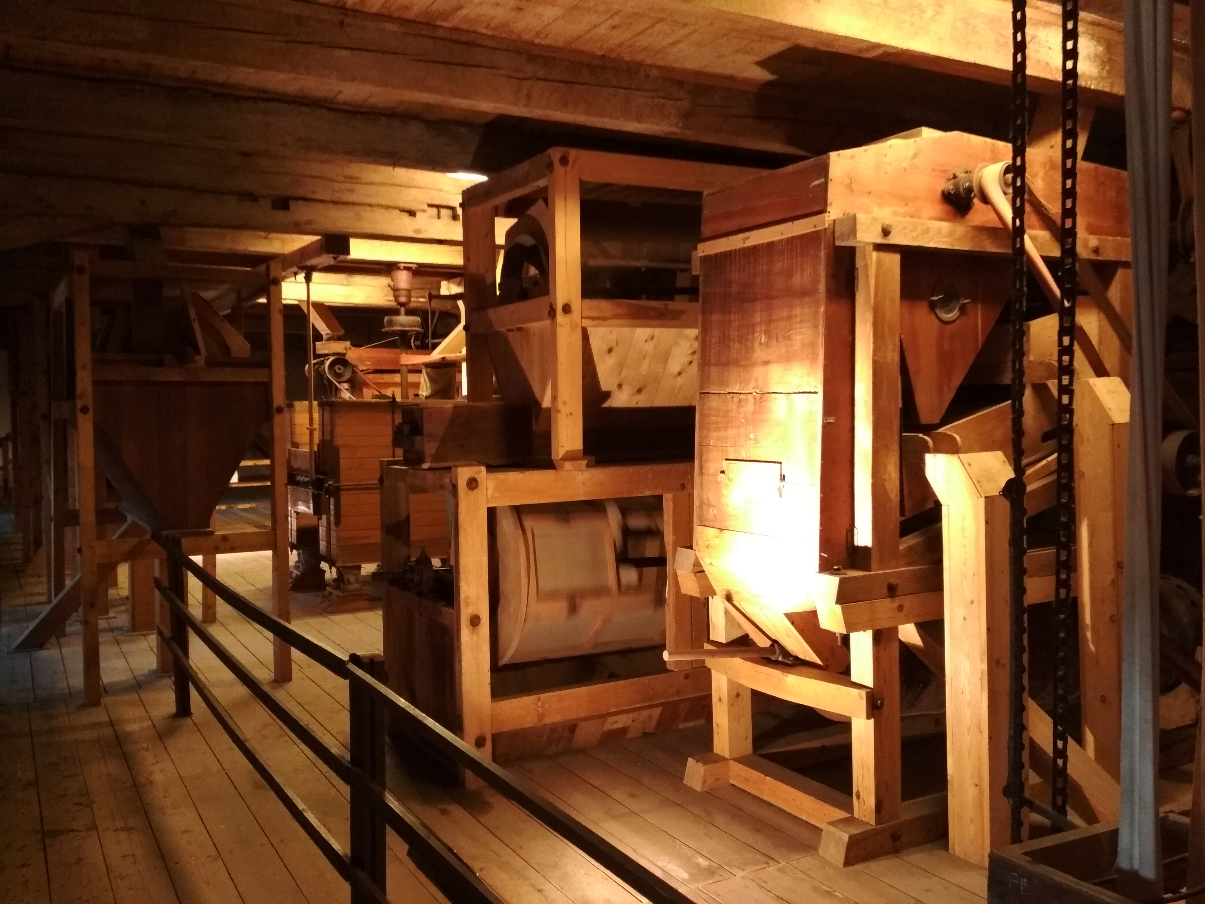 Interior of watermill in Slup, Znojmo District, Sout-Moravian Region, Czechia